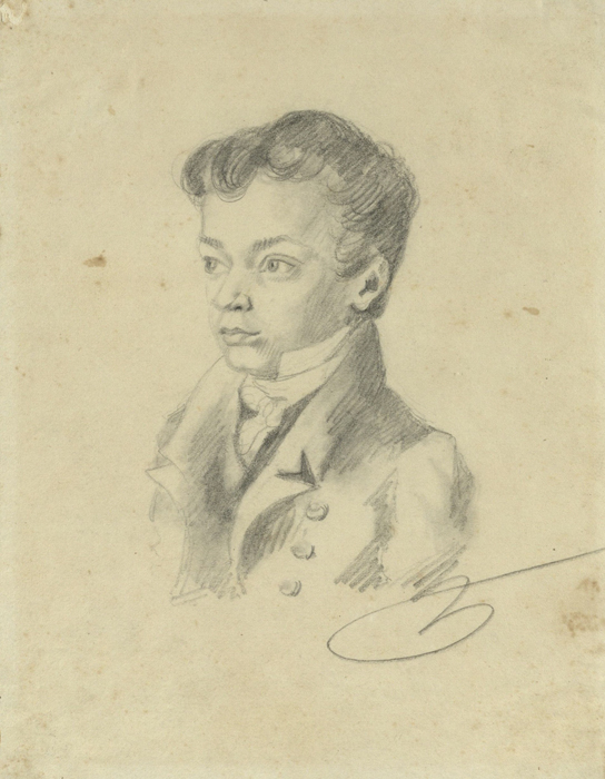 Sketch of 11-year old Eustachy Tyszkiewicz